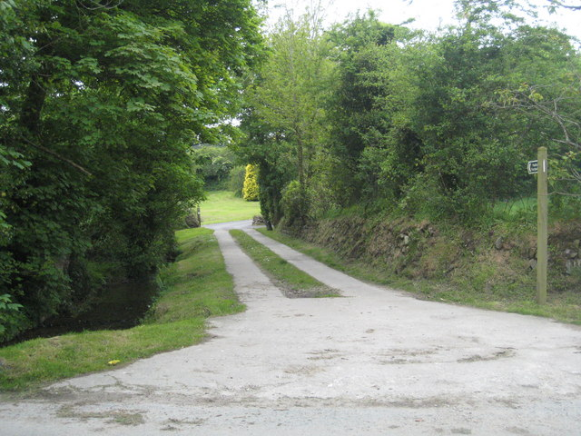 Public bridleway at Trethellan Water The stream on the left here runs through Trewithen Moor and eventually into the River Kennall.